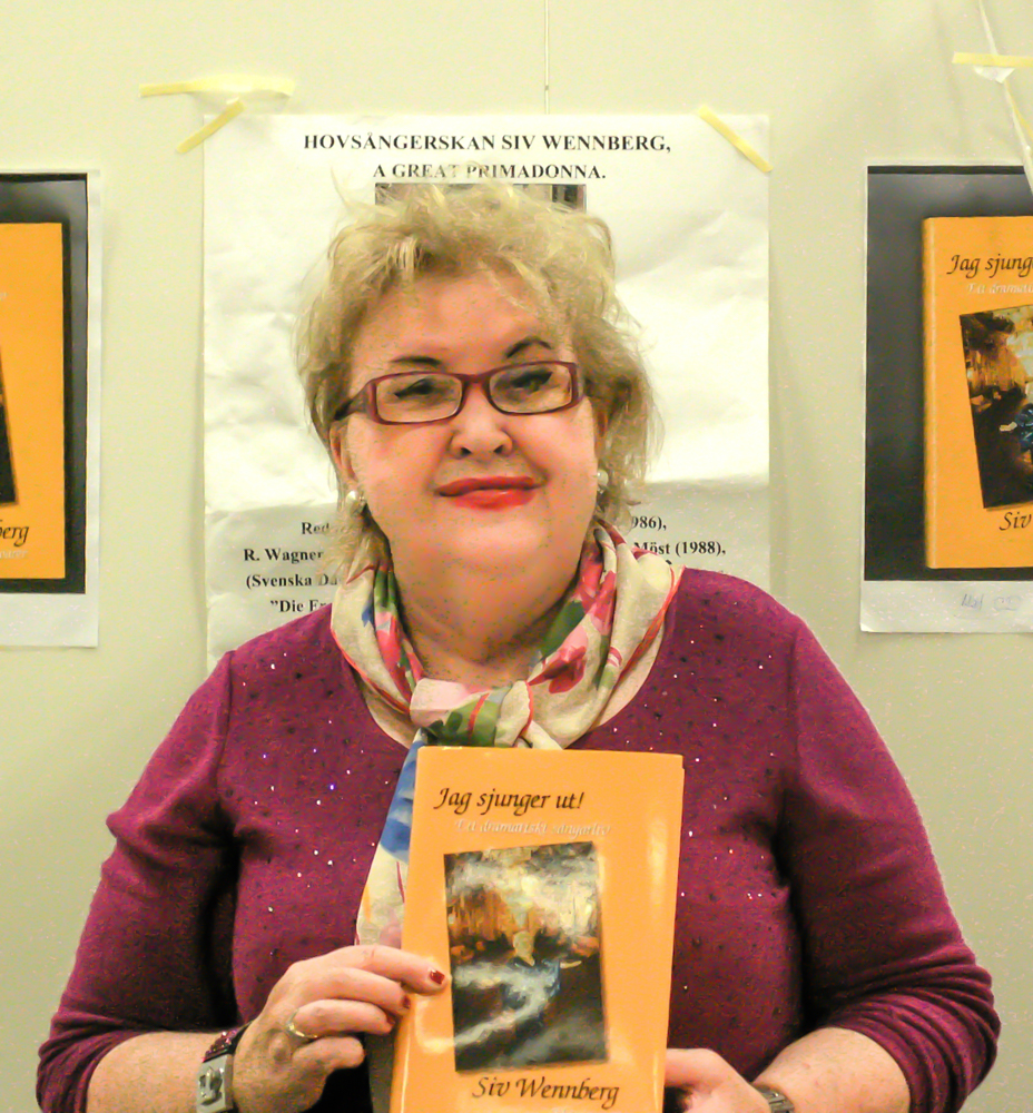 Siw Wennberg at the Book Fair in Gothenburg on September 27, 2015.